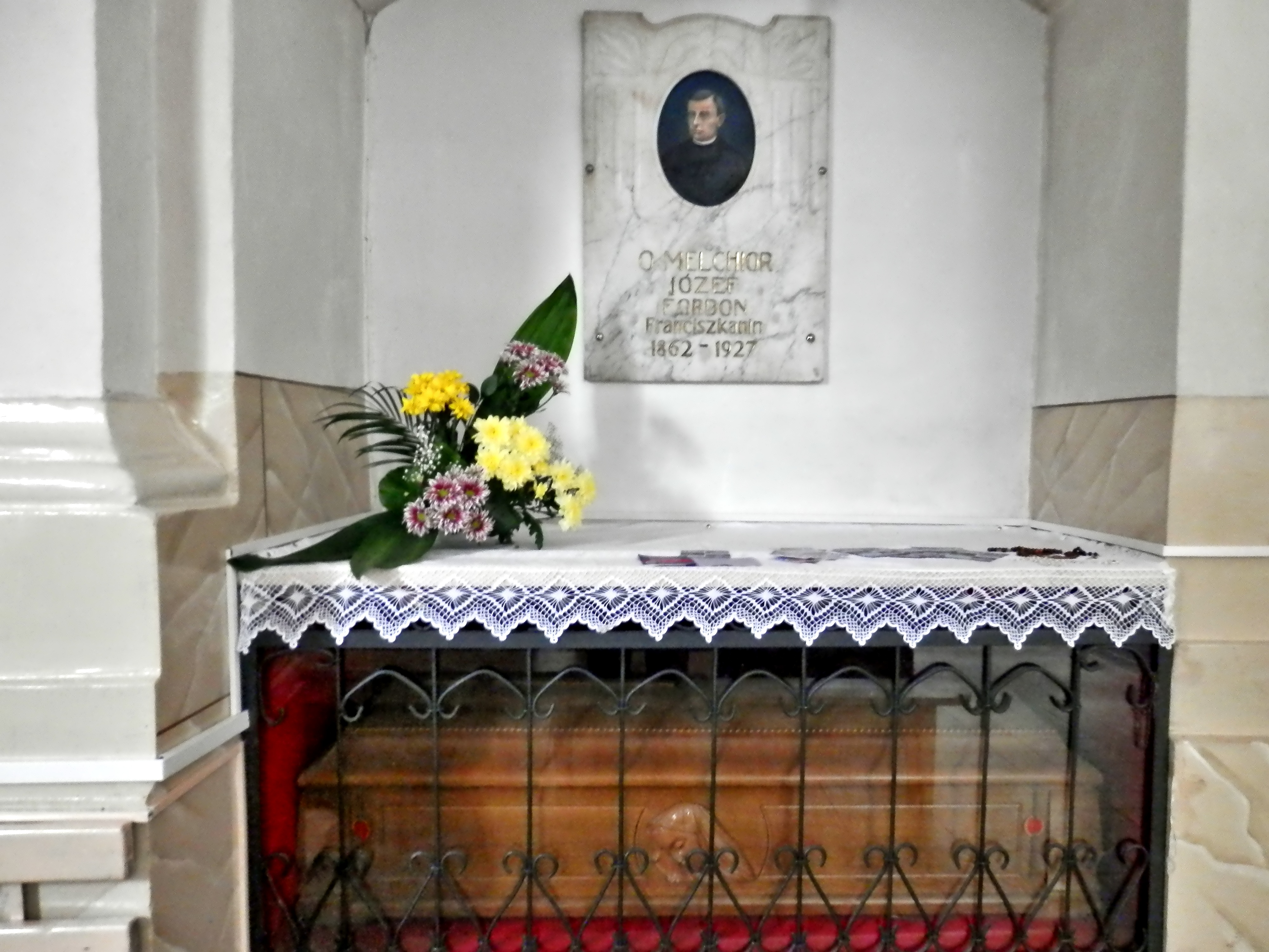 Franciscan church of St. Mary of the Angels in Hrodna